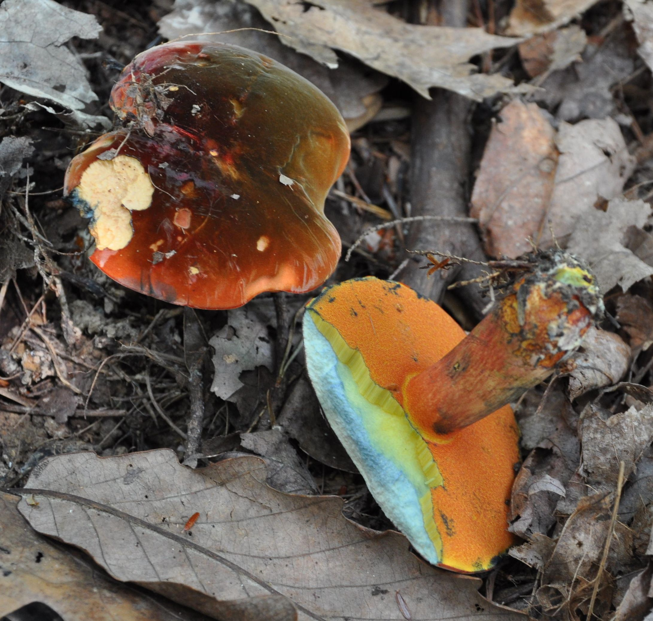 Boletus erythropus found in Ohio.